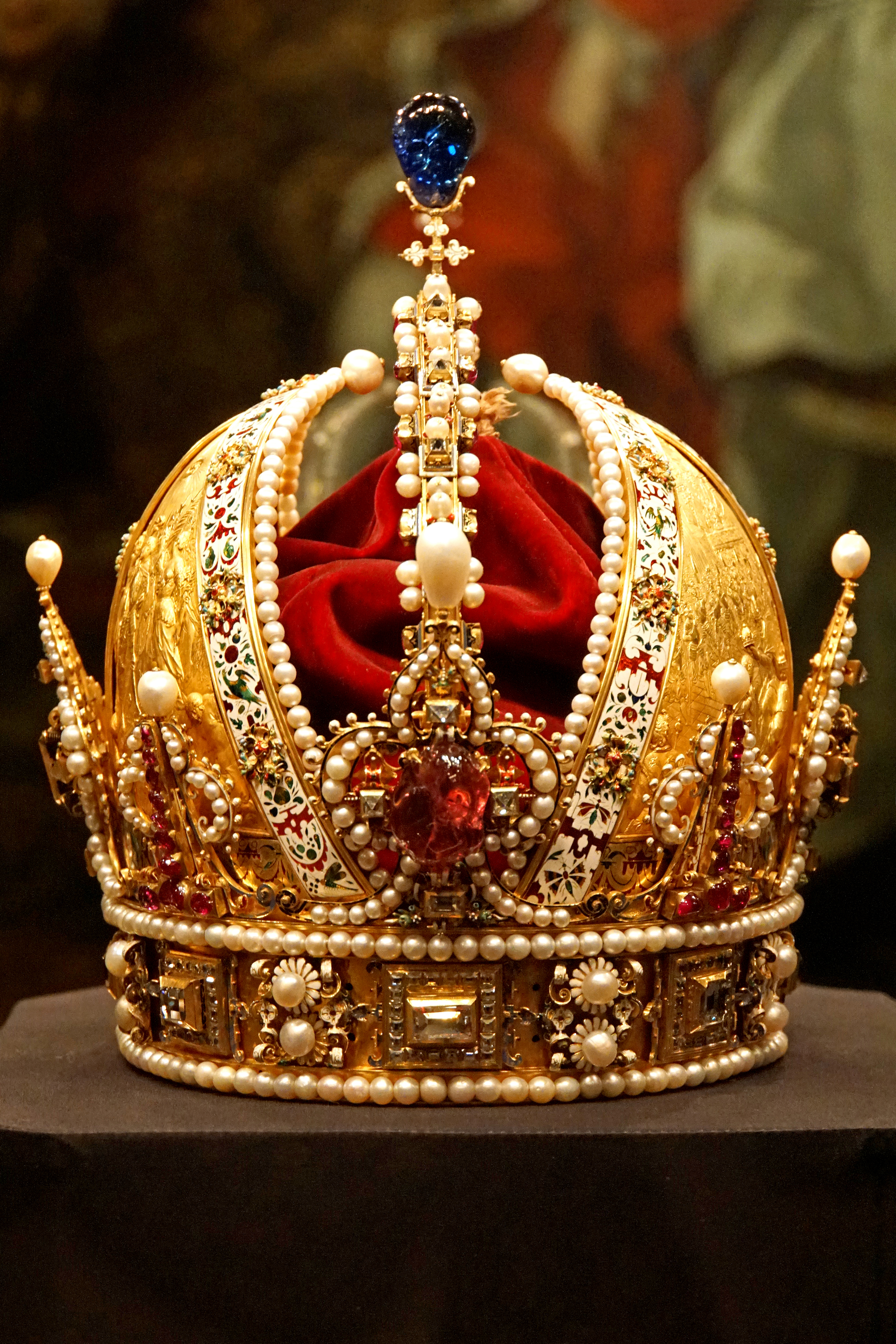 The crown of Emperor Rudolf II, which later became the Austrian imperial crown. This was my main reason for wanting to visit, it is on all the posters. This is the last shot from the treasury, there is a lot more there than what I have shown you, worth a visit.